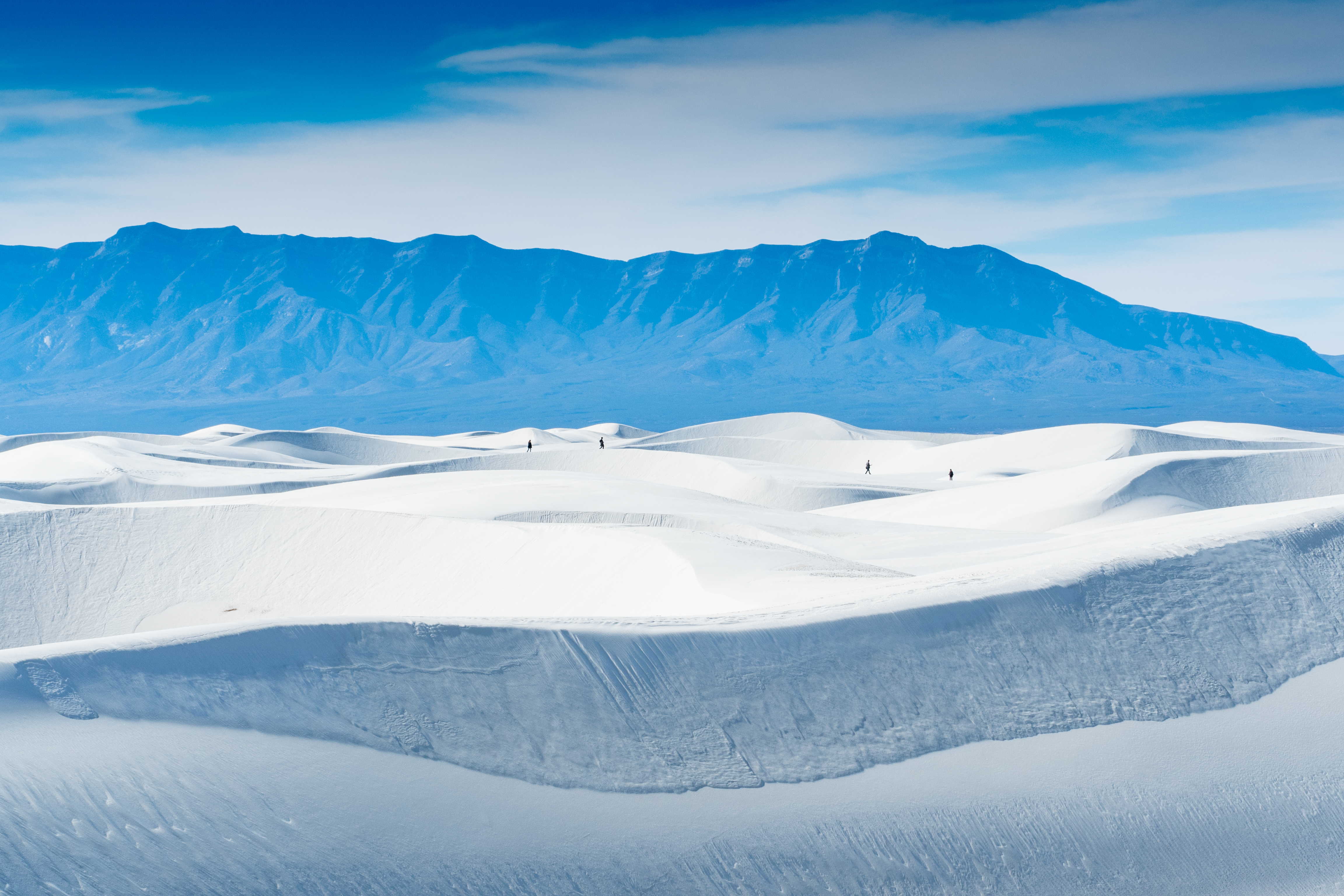 White Sands National Monument, United States